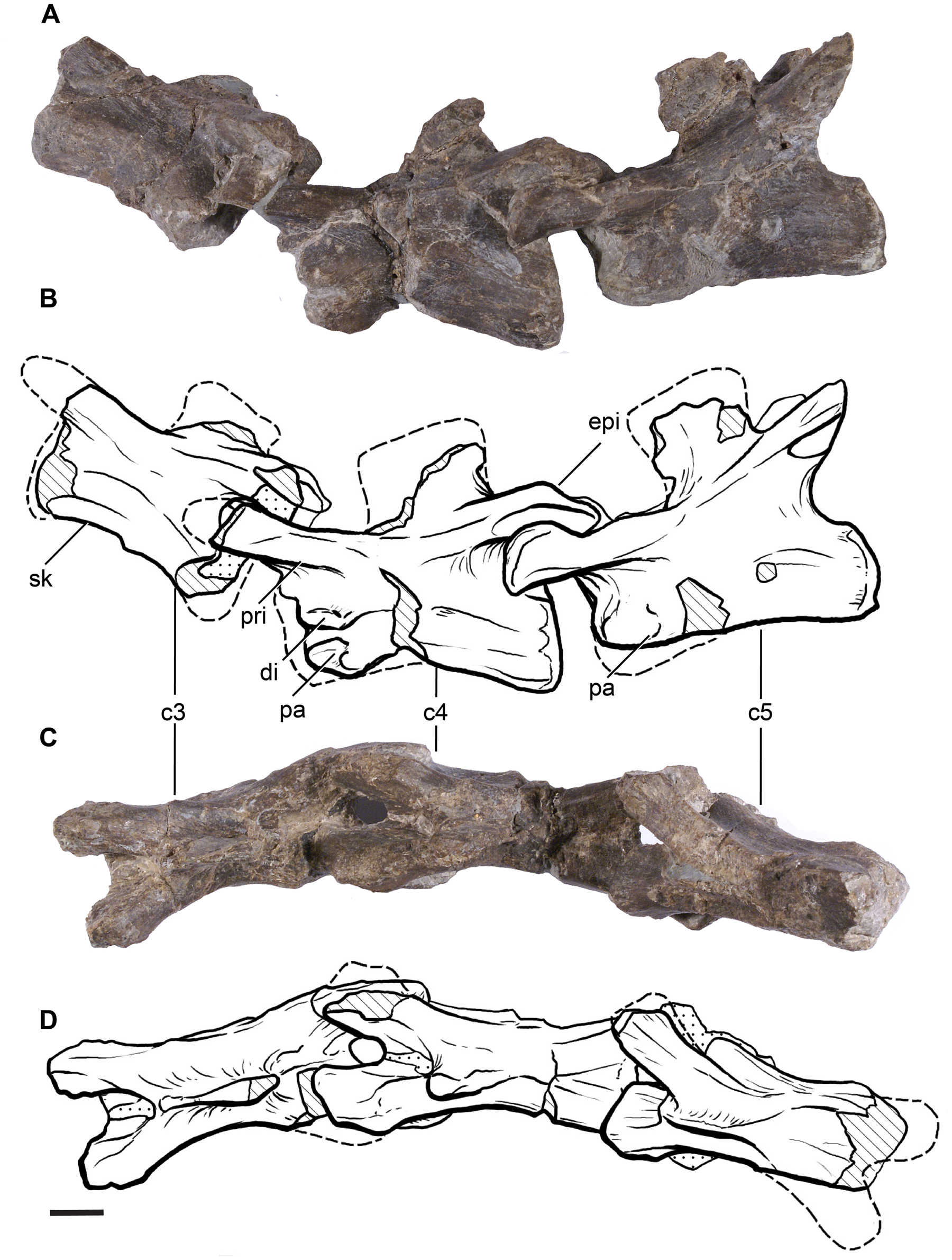 Cervical vertebrae 3–5 of Leonerasaurus taquetrensis (MPEF-PV 1663). A–B, lateral view. C–D, dorsal views. Scale bars represent 10 mm. Hatched pattern represents broken surfaces and dotted pattern represents sediment. Abbreviations: c3-c5, cervical vertebrae 3 through 5; di, diapophysis; pa, parapophysis; pri, prezygapophyseal ridge; epi, epipophysis; psf, postspinal fossa; sk, sagittal keel.